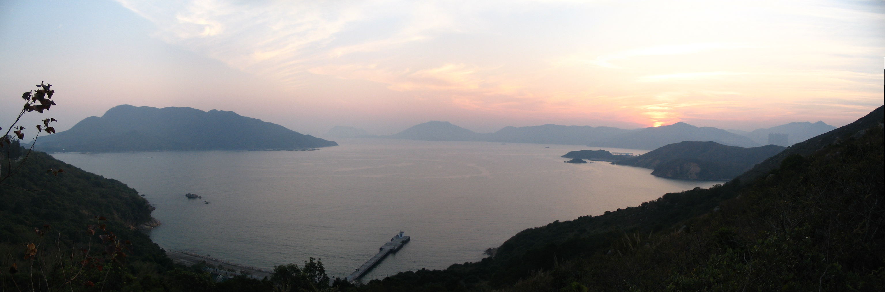 Panoramic photo of Joss House Bay, combined from 2168344449, 2169137932, 2169138622, 2169139356, 2168347355 and 2168348037